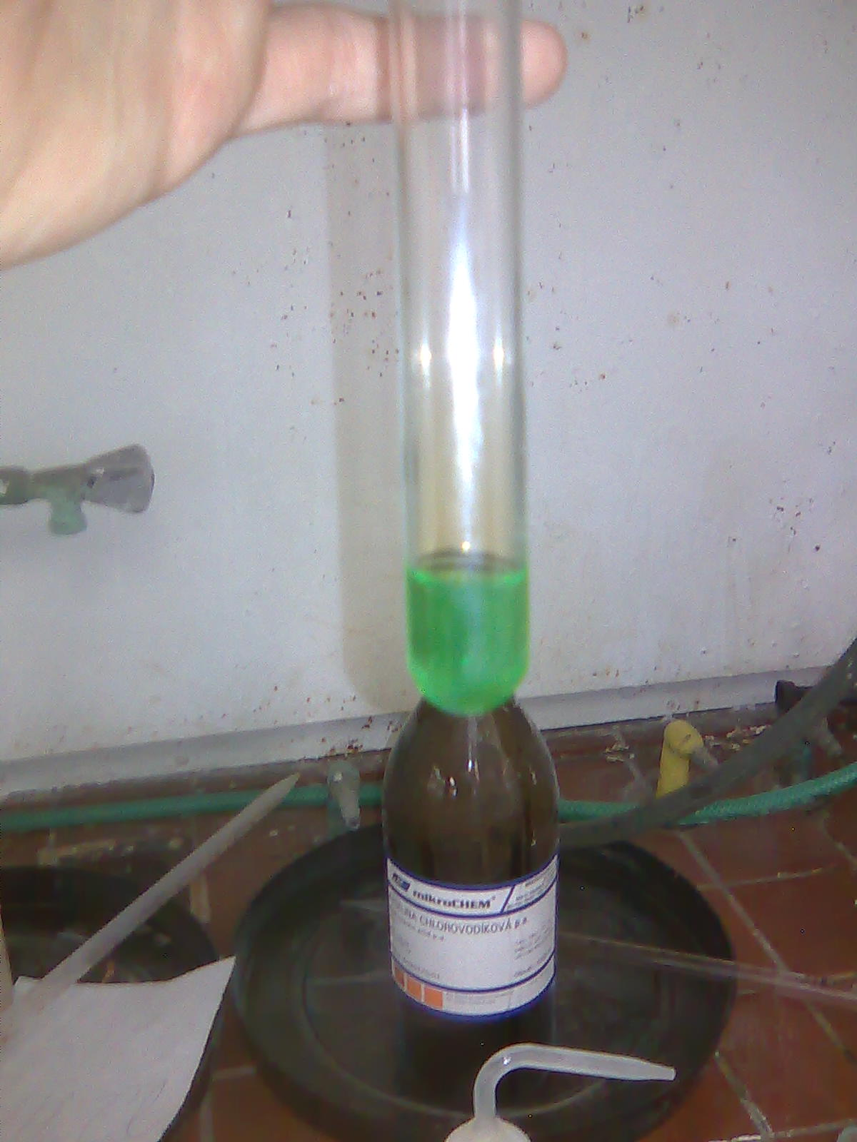 Copper(II) nitrate. Photo taken at Slovak University of Technology.